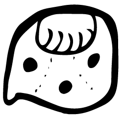 Maya:glyph:logogram:calendric:Tzolkin:Day14:Ix:codex+W:v01. Img created by CJLL Wright.